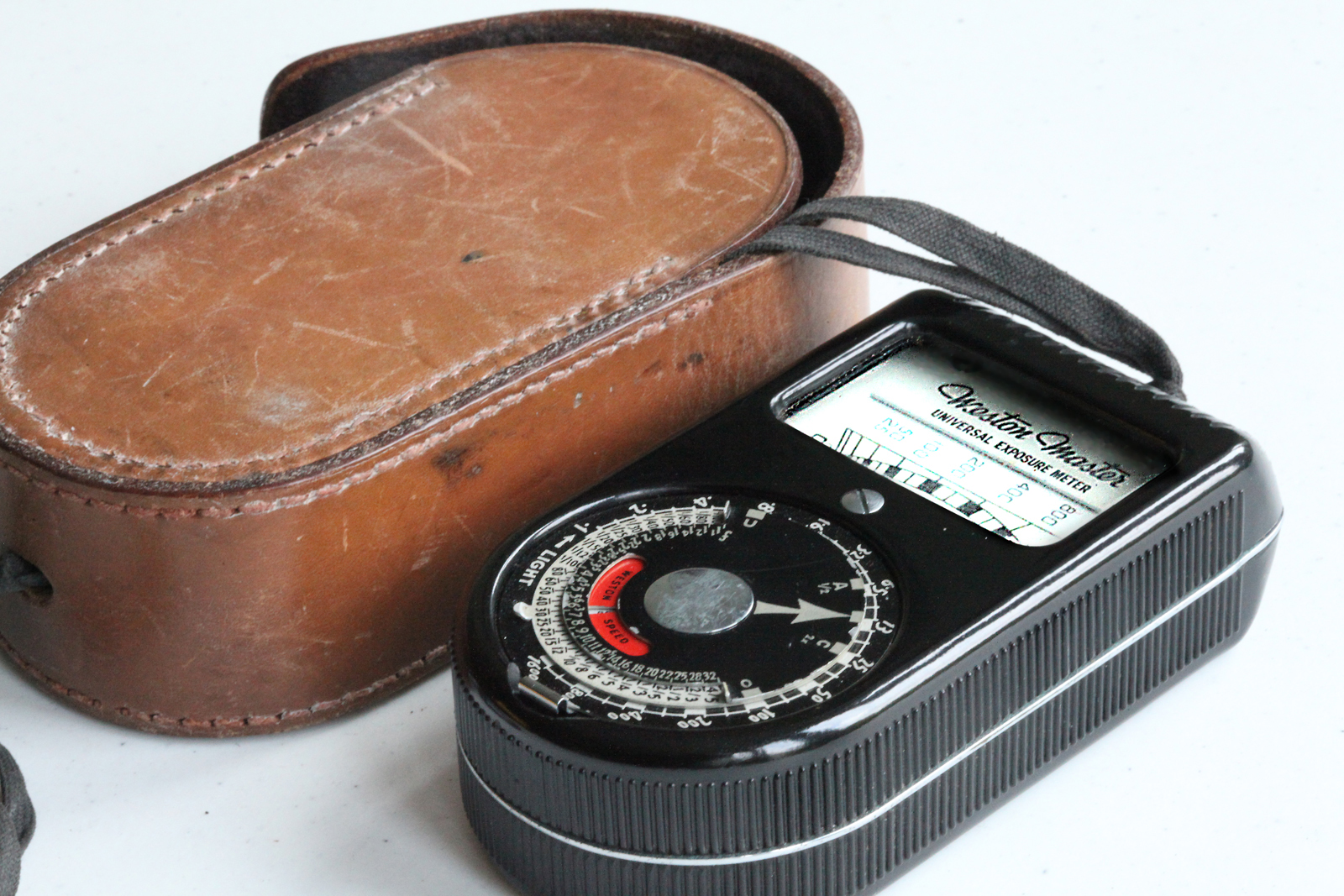 This is an early model of the Weston Master series